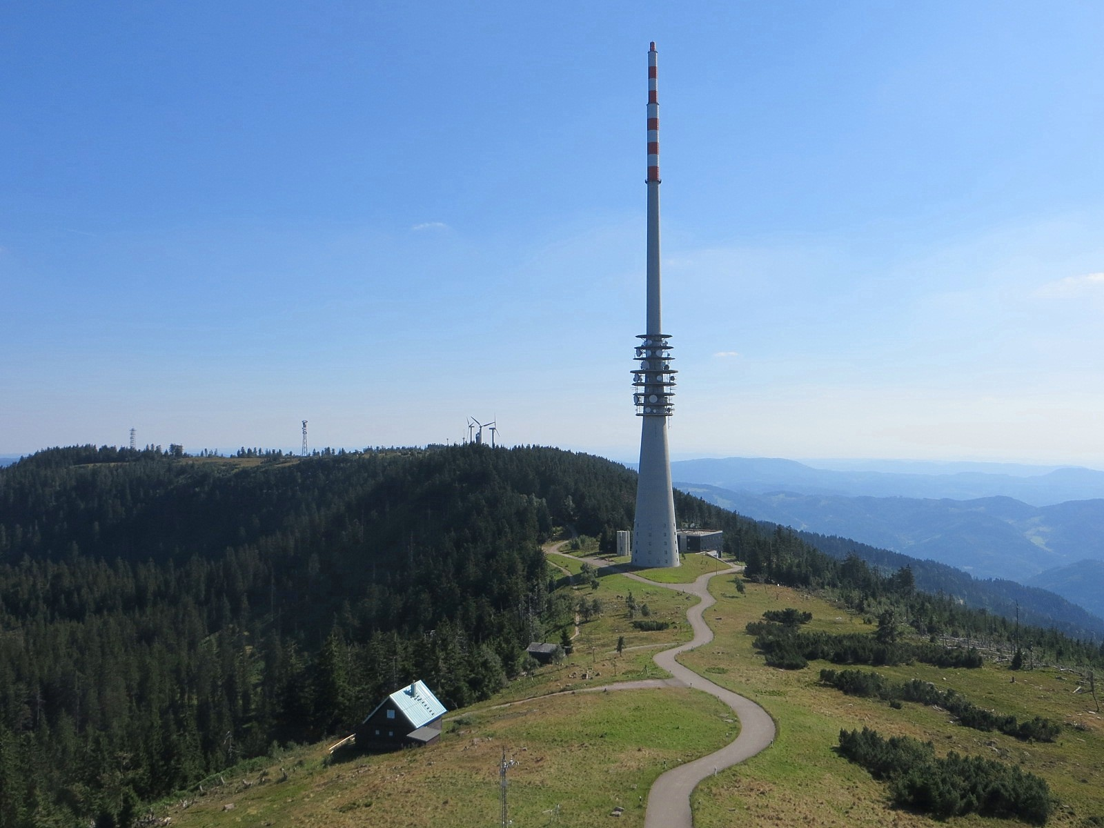 Transmitter Hornisgrinde